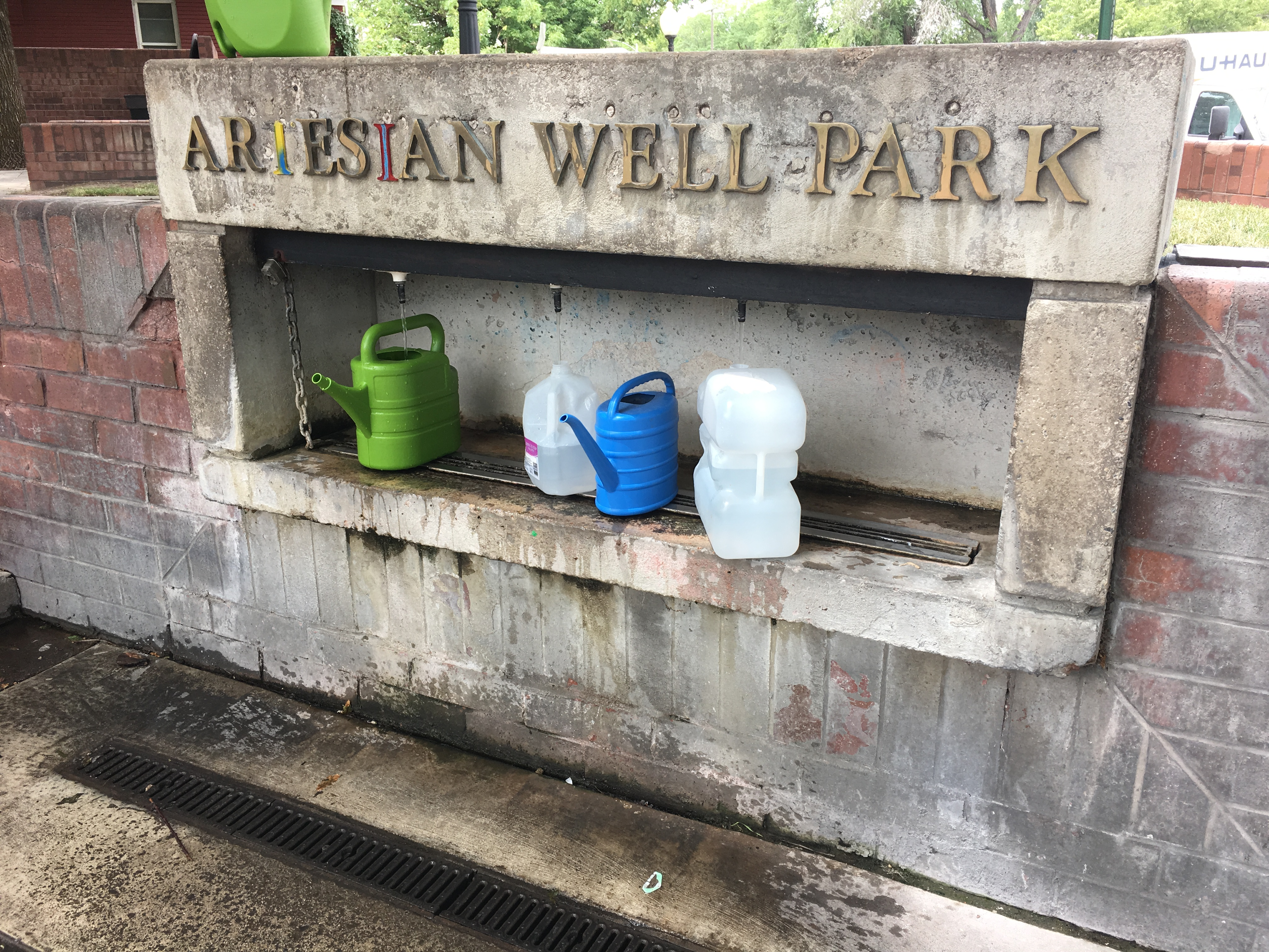 The water filling spigots at Artesian Well Park in Salt Lake City, Utah